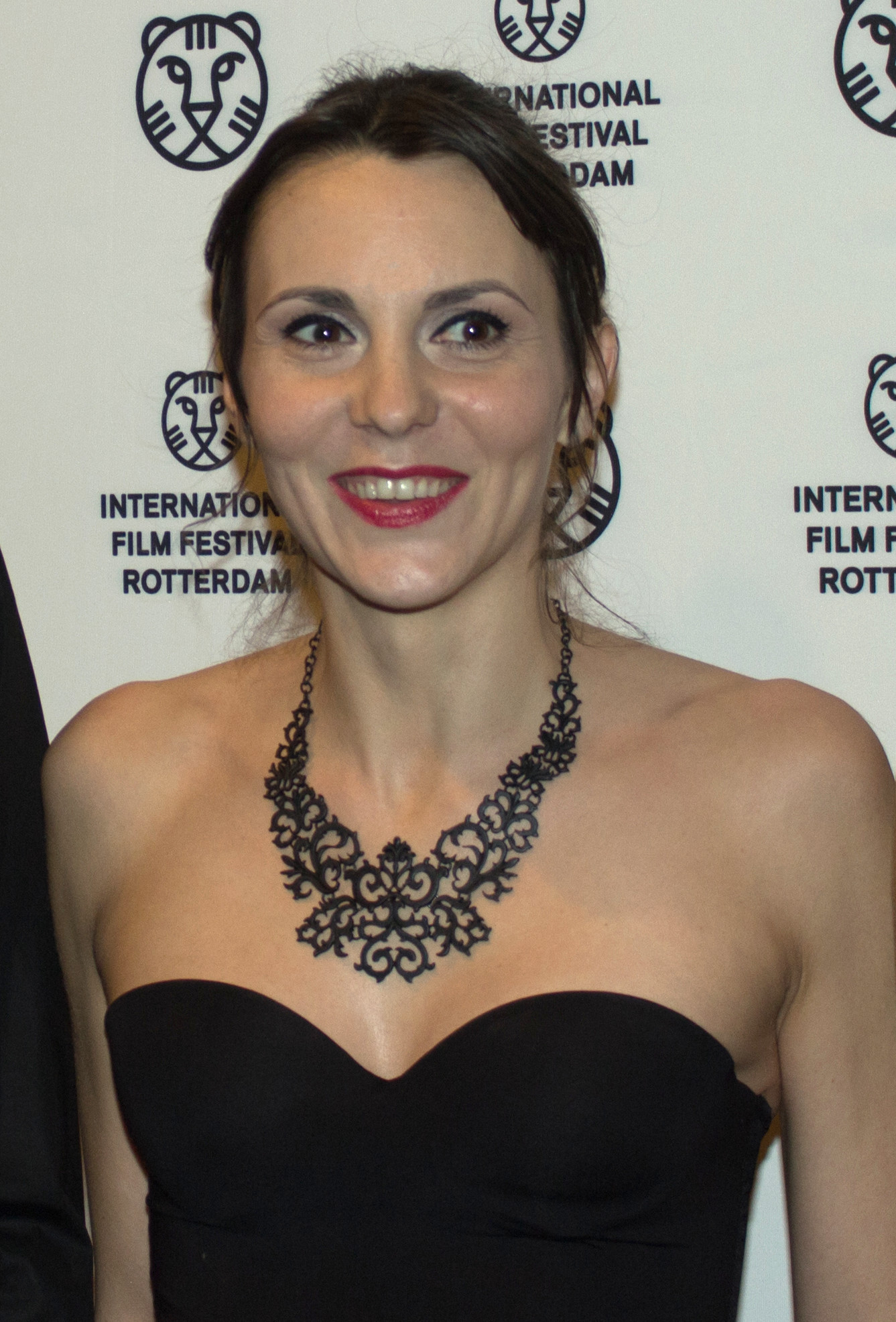 Nada Sargin at the premiere of "The Sky Above Us"